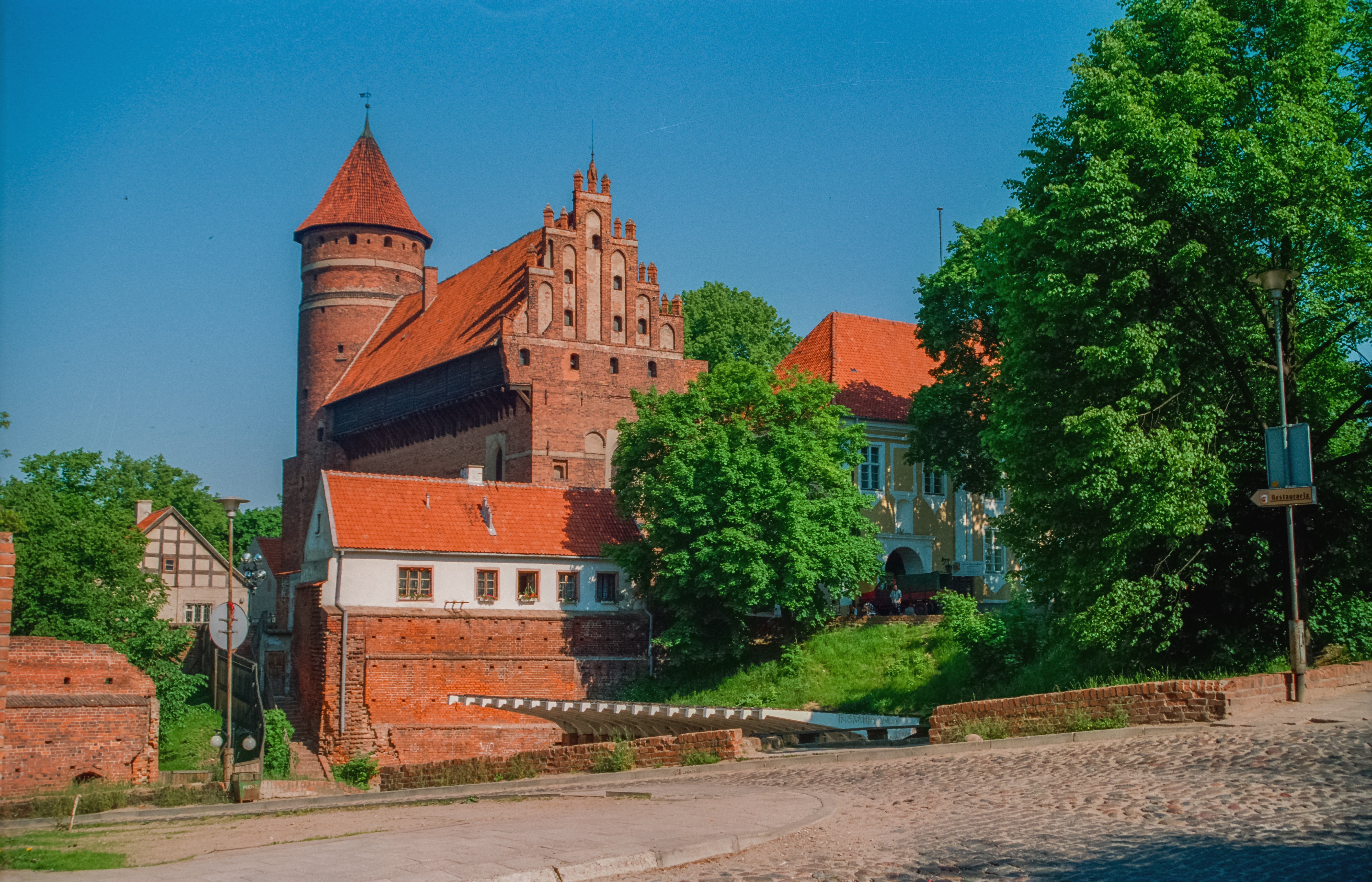 Poland, Castle